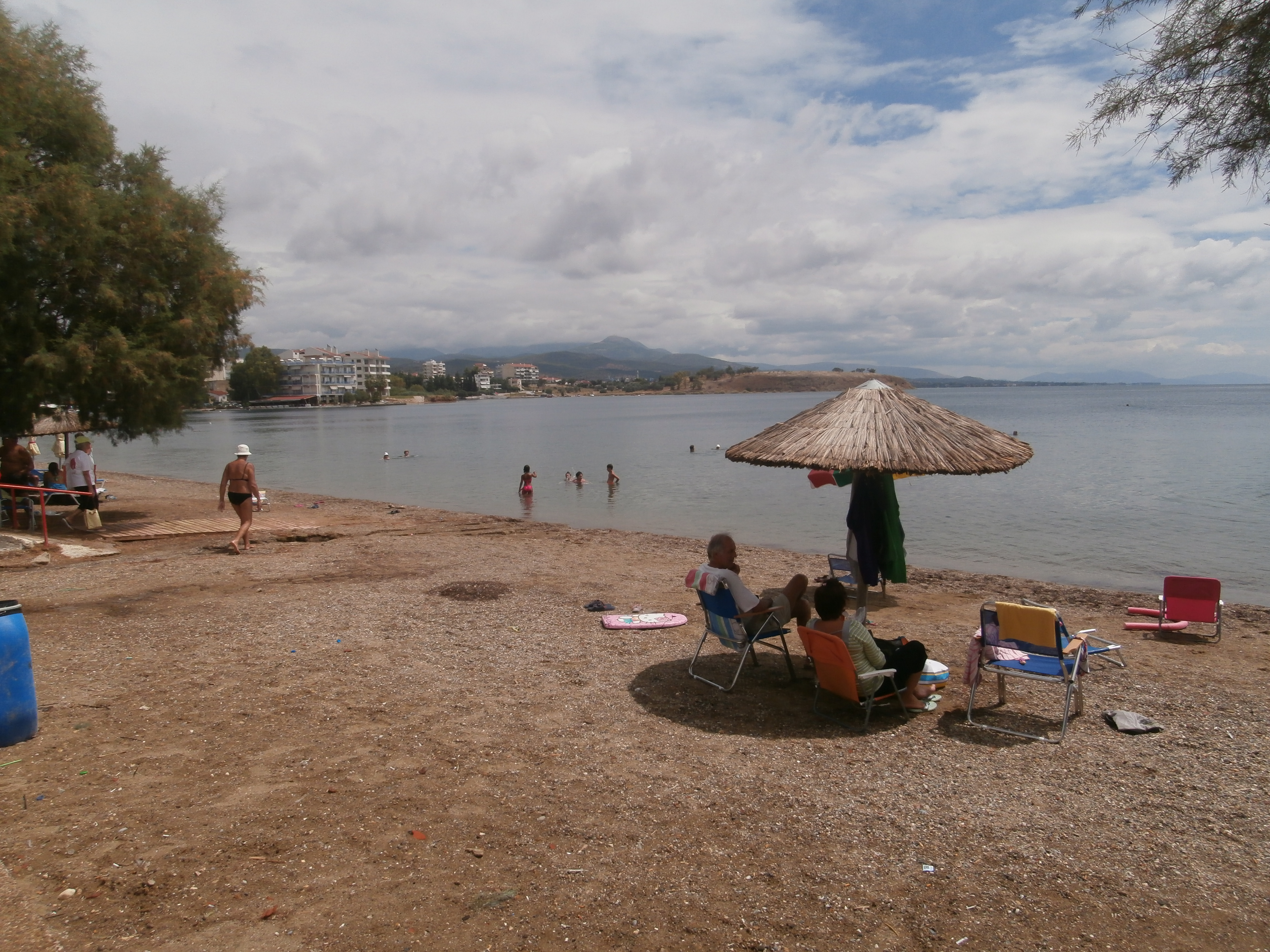 Lefkadi beach, Euboea